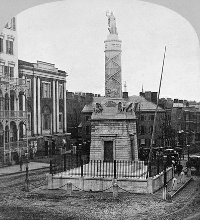 The Battle Monument of Baltimore ಕನ್ನಡ: ಬಾಲ್ಟಿಮೋರ್ ಯುದ್ಧ ಜ್ಞಾಪಿಸುವ ಯುದ್ಧ ಸ್ಮಾರಕ.